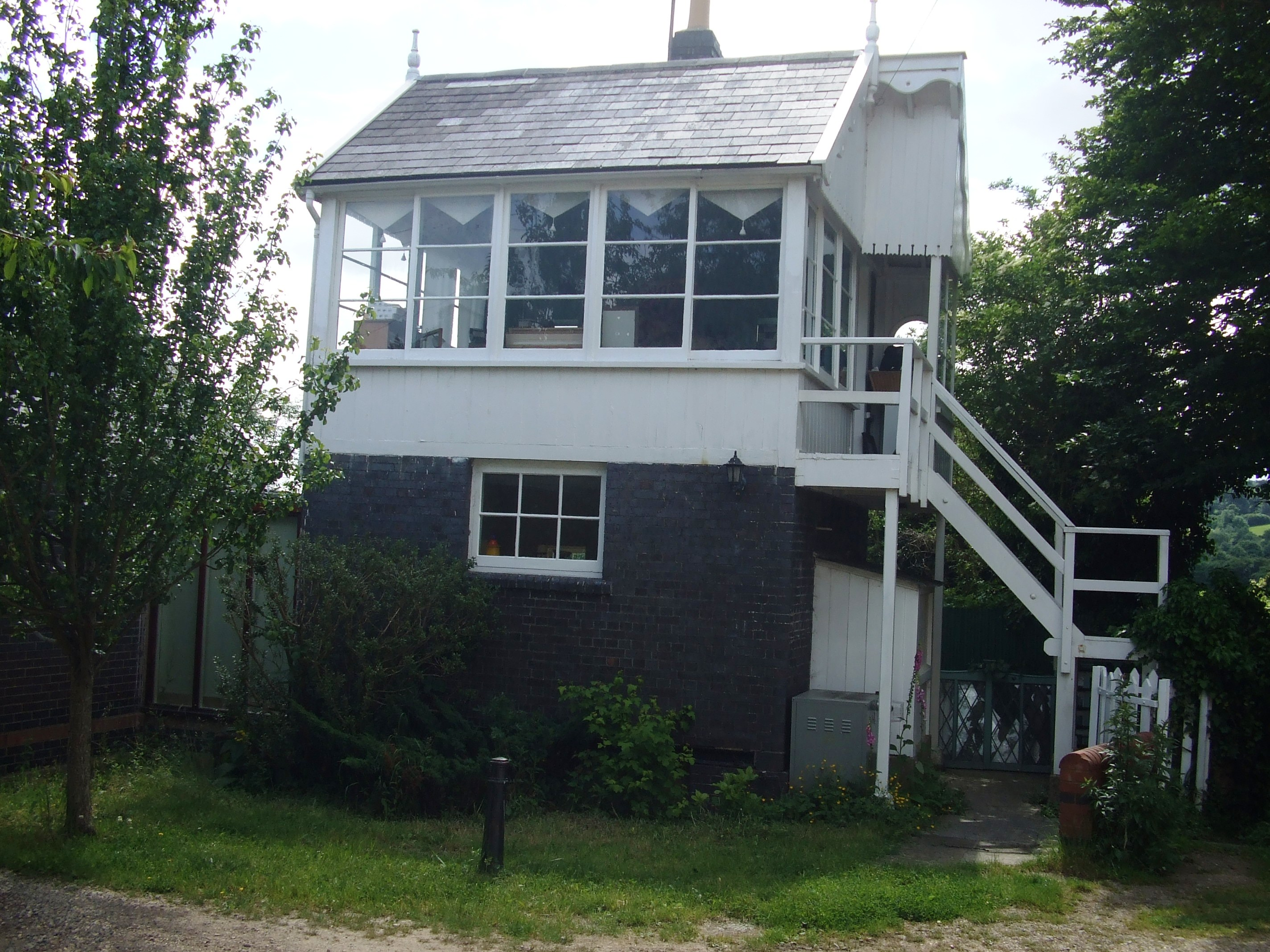 Signal box at Wellow, Somerset. Now private house